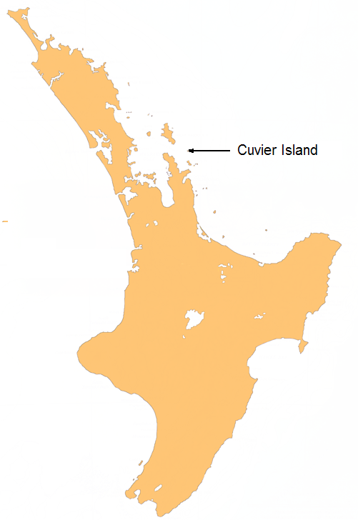 Location map of Cuvier Island, New Zealand